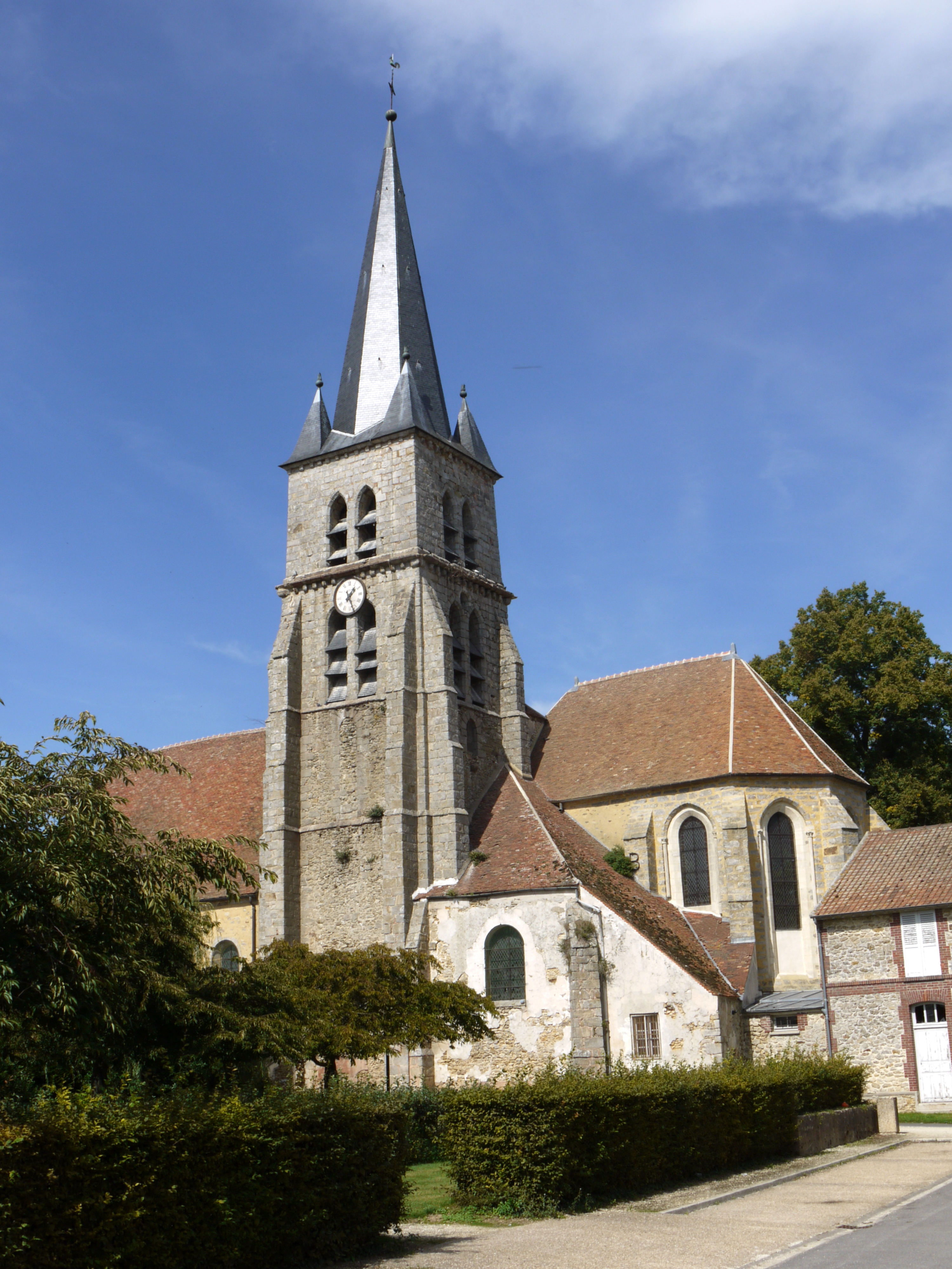 Church of Marles en Brie, Seine et Marne, Ile de France